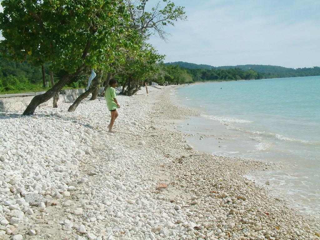 Bluefields Beach, Jamaica. View looking east from the start of the beach adjacent to the beach park. Photo by User:Op. Deo November 21,2005.